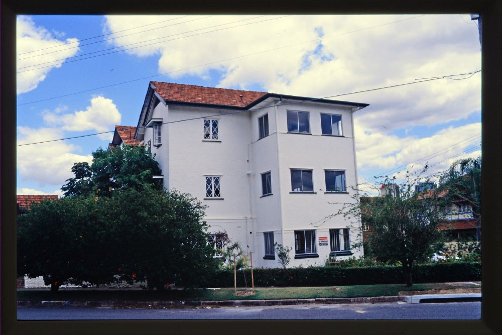 Green Gables - Julius Street Flats New Farm (1996)